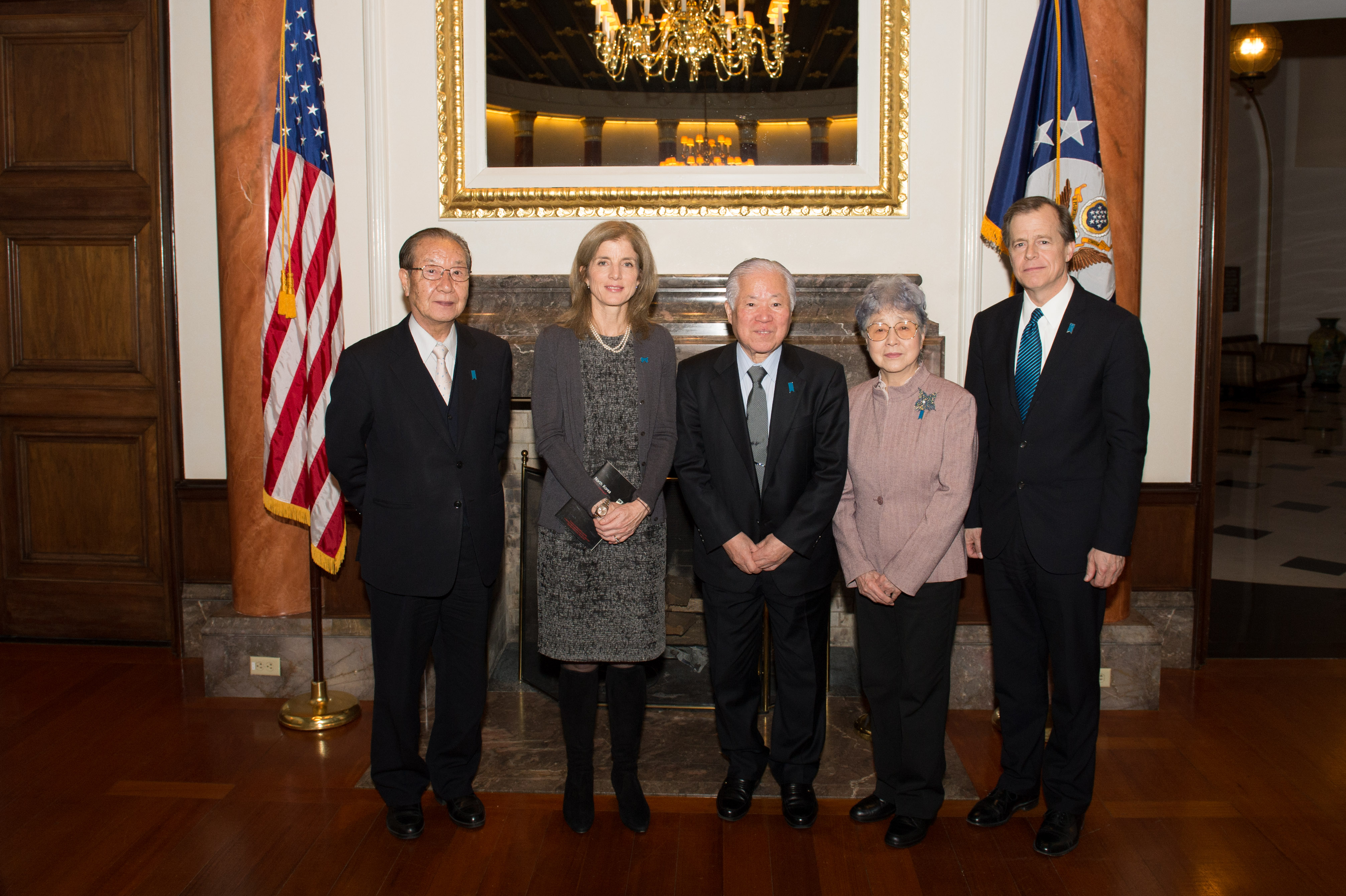 Shigeo Iizuka, President of the Association of the Families of Victims Kidnapped by North Korea, Shigeru Yokota, Member of the Association of the Families of Victims Kidnapped by North Korea, and Sakie Yokota, Member of the Association of the Families of Victims Kidnapped by North Korea, met Glyn Davies, Special Representative for North Korea Policy, and Caroline Kennedy, Ambassador to Japan, at the Ambassador's Residence in Tokyo on January 30, 2014.